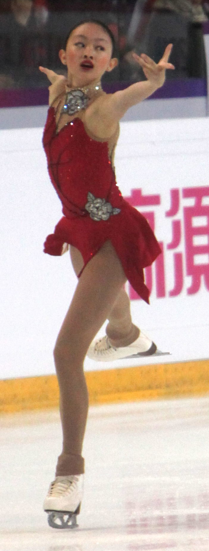 Audrey Lu and Misha Mitrofanov during the Pairs Free Skating at the Internationaux de France de Patinage 2018.